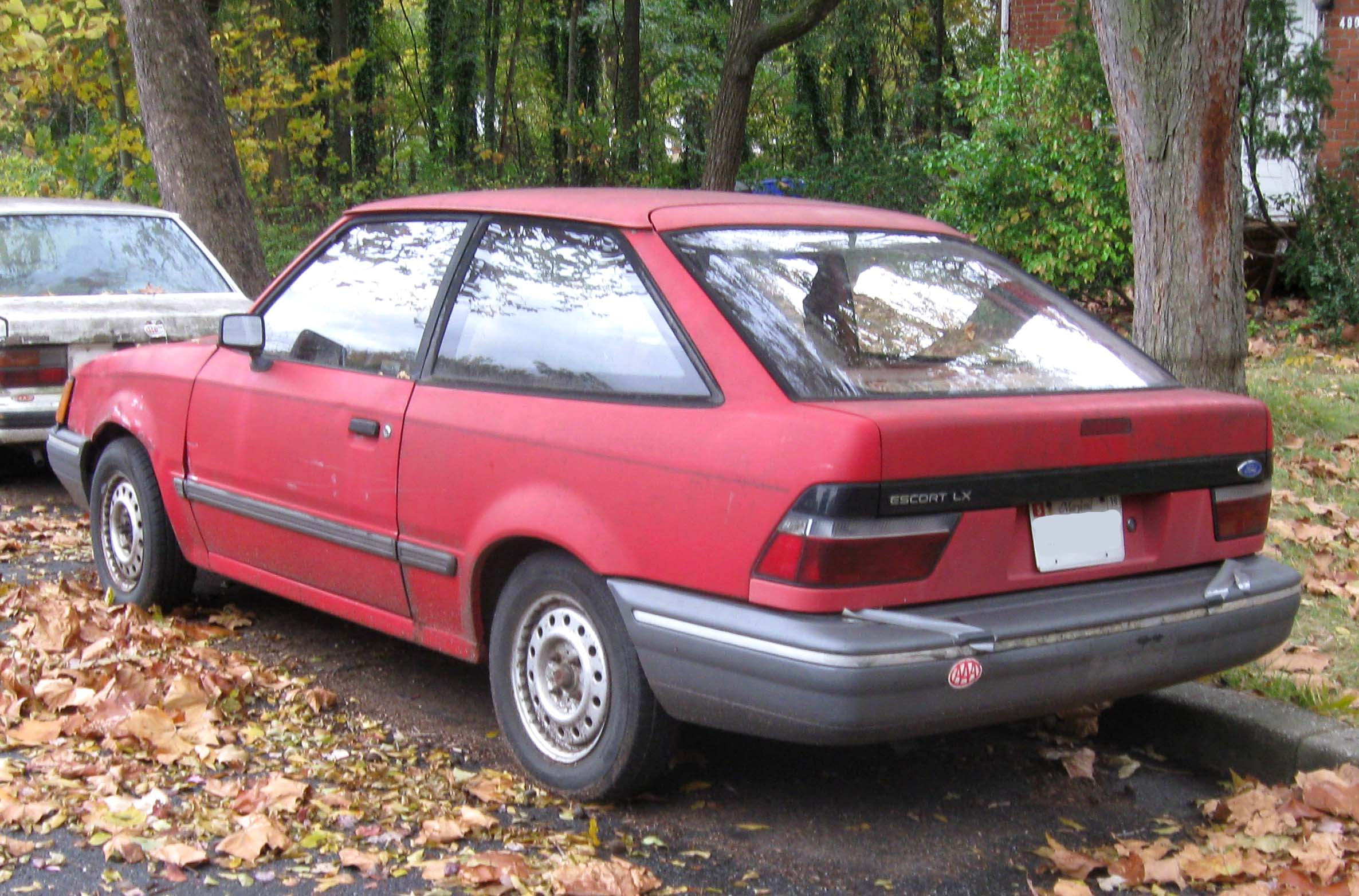 1988-1990 Ford Escort photographed in College Park, Maryland, USA.